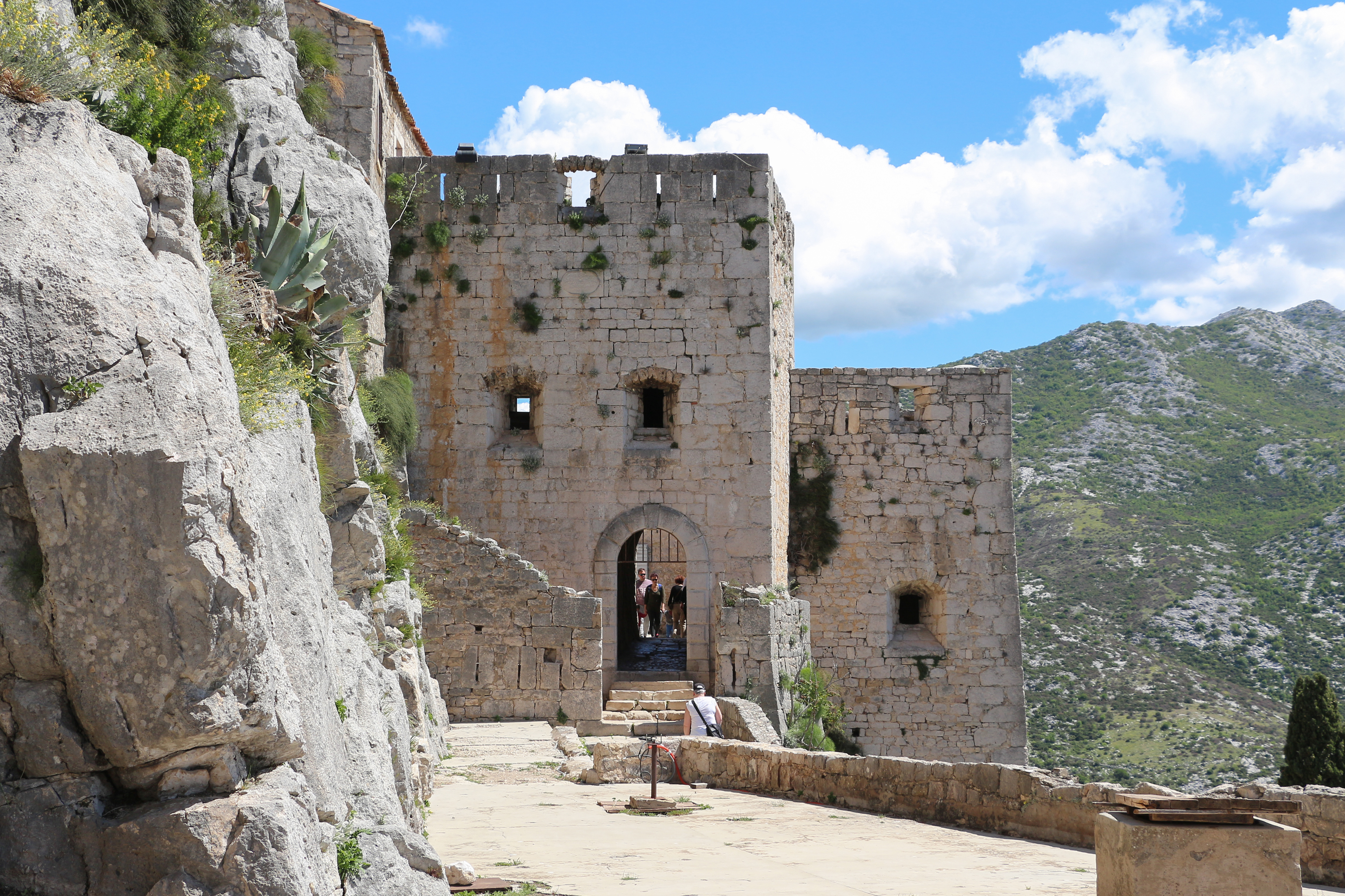 Third gate of Klis Fortress, Croatia